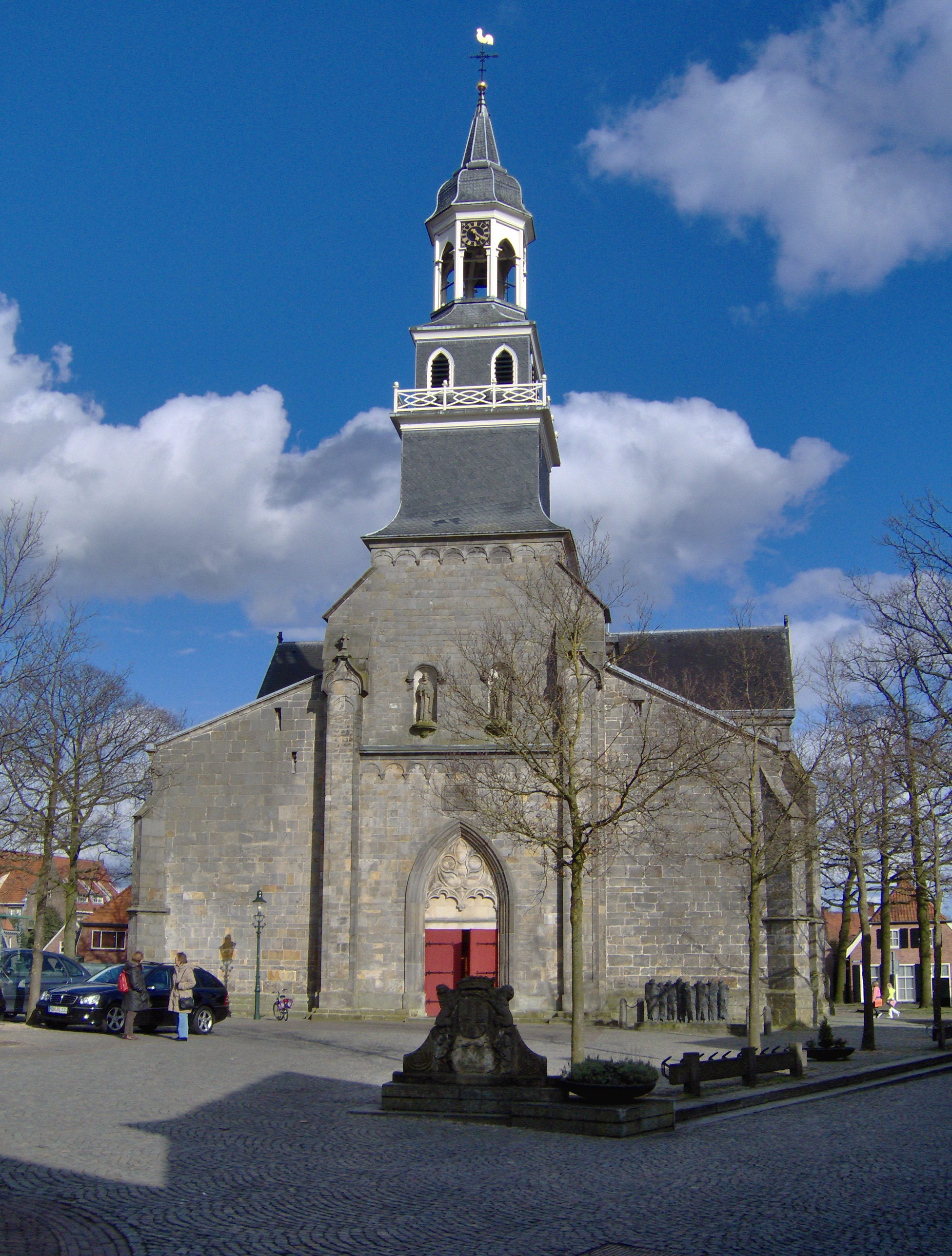 The roman catholic church Saints Simon and Judas in Ootmarsum, Overijssel, The Netherlands